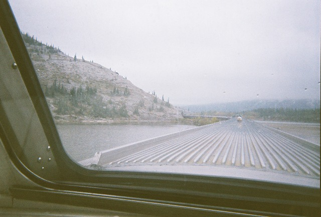 Jasper Lake as seen from the train--VIA Rail's Canadian--as the train crosses a causeway. The scene shows how the causeway has created a dam, a separation between the main part of the lake (to the right) and a "mini" lake (to the left)' Note also the bluffs rising above the water. I took the photo myself October 2012.